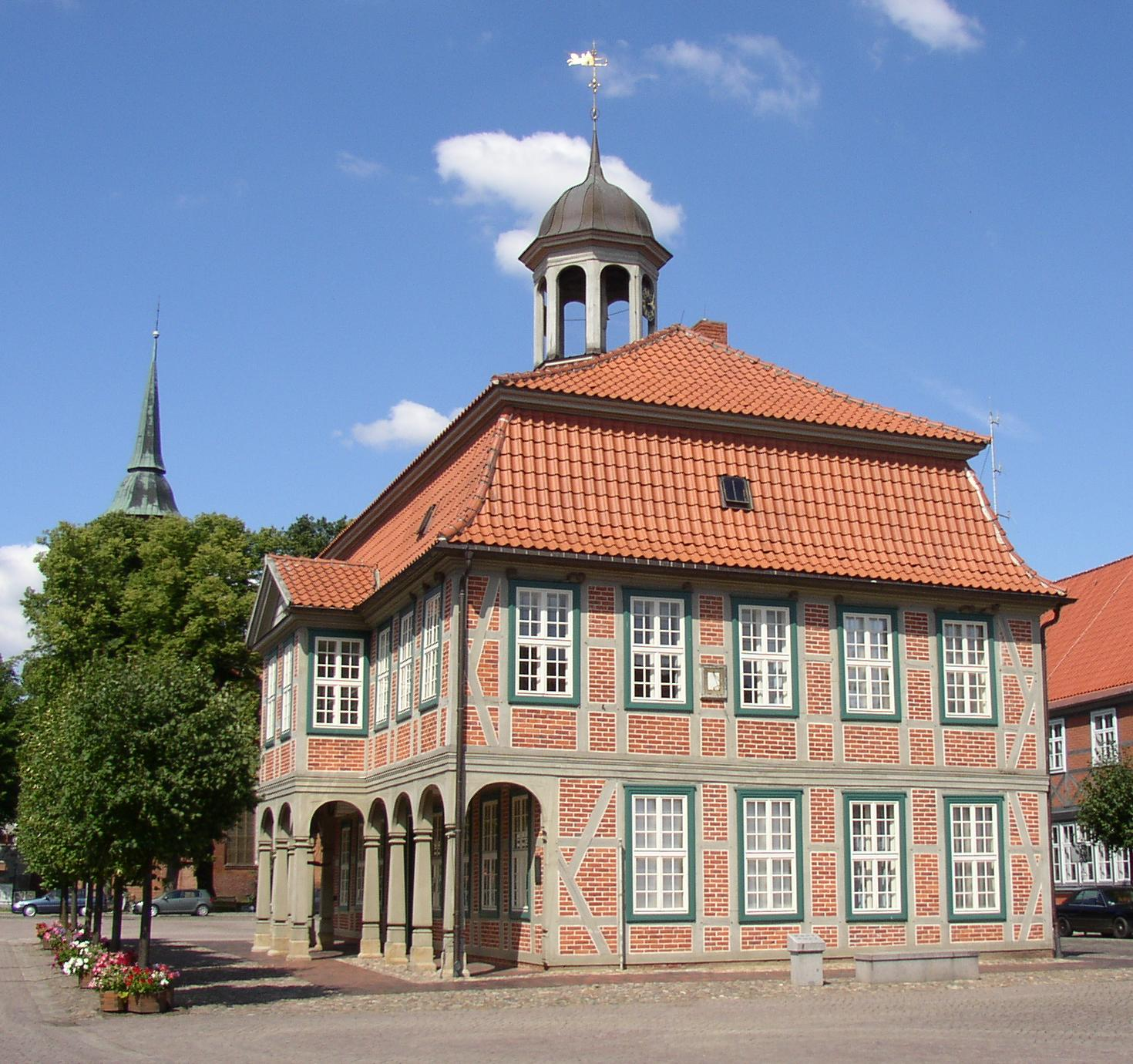 Town hall in Boizenburg in Mecklenburg-Western Pomerania, Germany